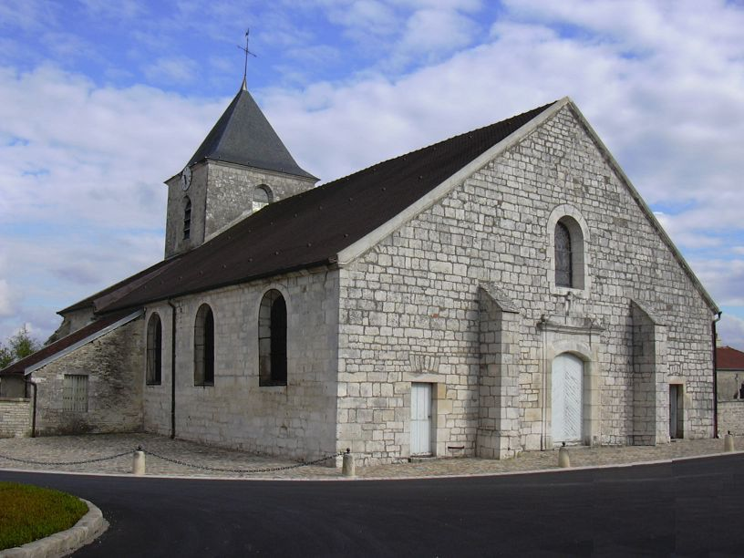 Church of Colombey-les-Deux-Églises (Haute-Marne, Champagne-Ardenne, France).